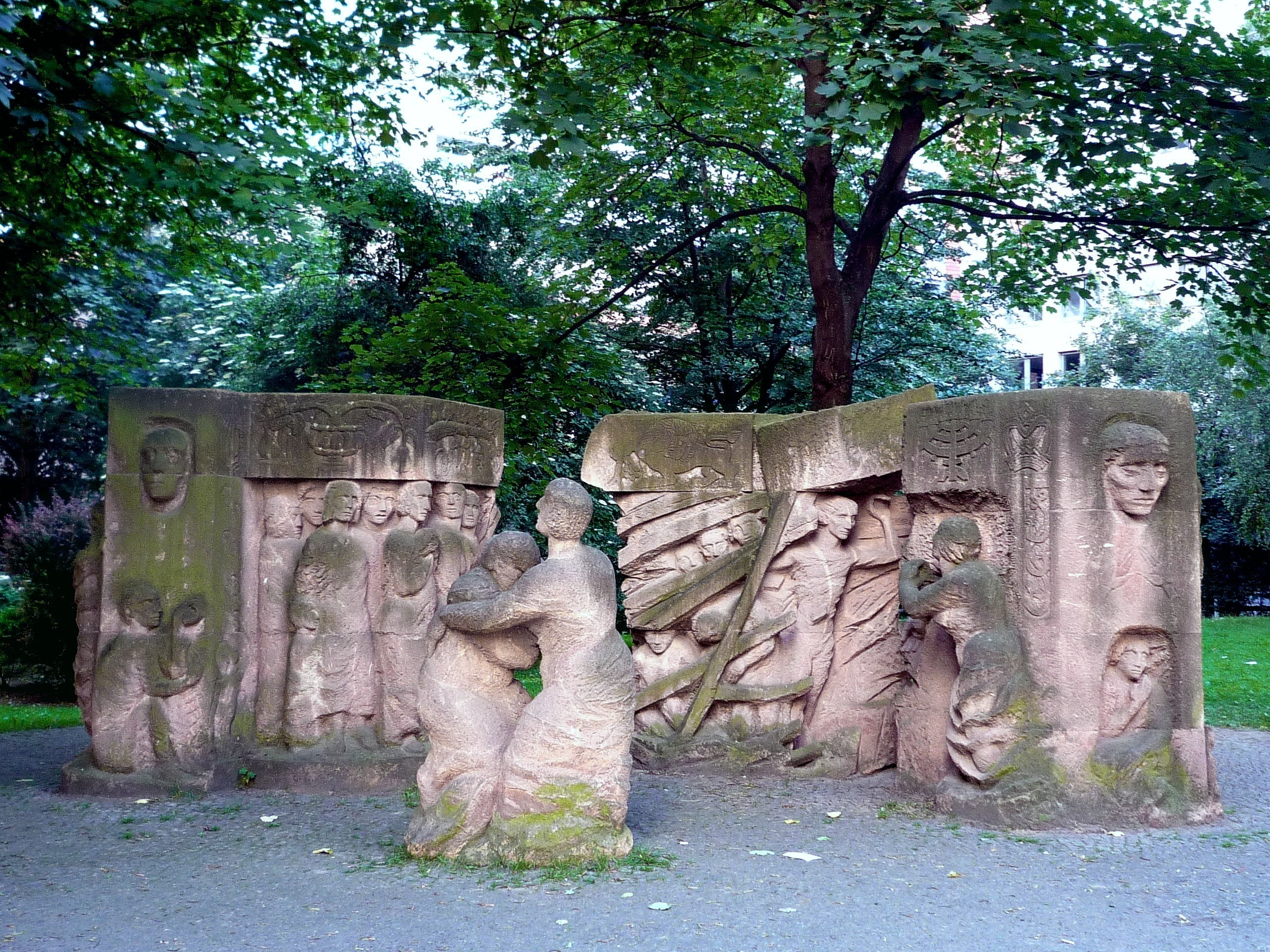 Sculpture Block der Frauen (Boulder of Women) by Ingeborg Hunzinger. The sculpture, located in the Rosenstraße in Berlin-Mitte, is a memorial for women, who demonstrated here in the Rosenstrasse protest against the imprisonment of their jewish relatives in 1943.